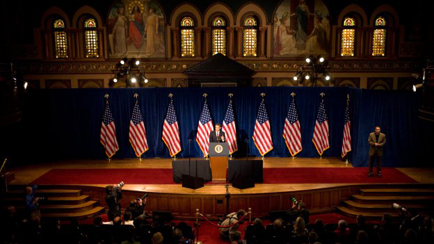 President Barack Obama speaks at Georgetown University.